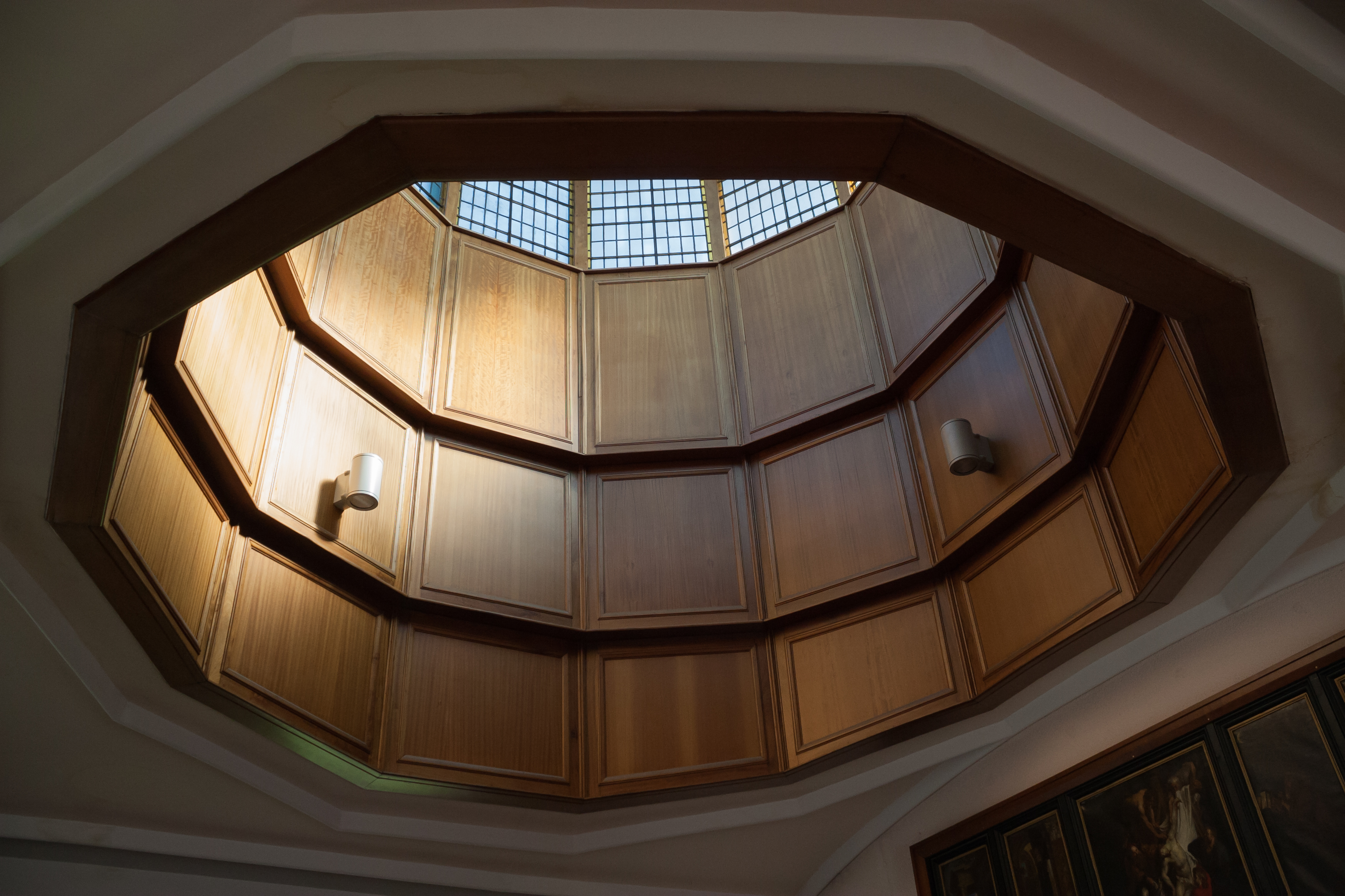 View into the mahogany panelled lantern from the gallery.